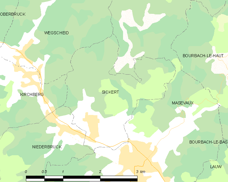 Map of French municipality